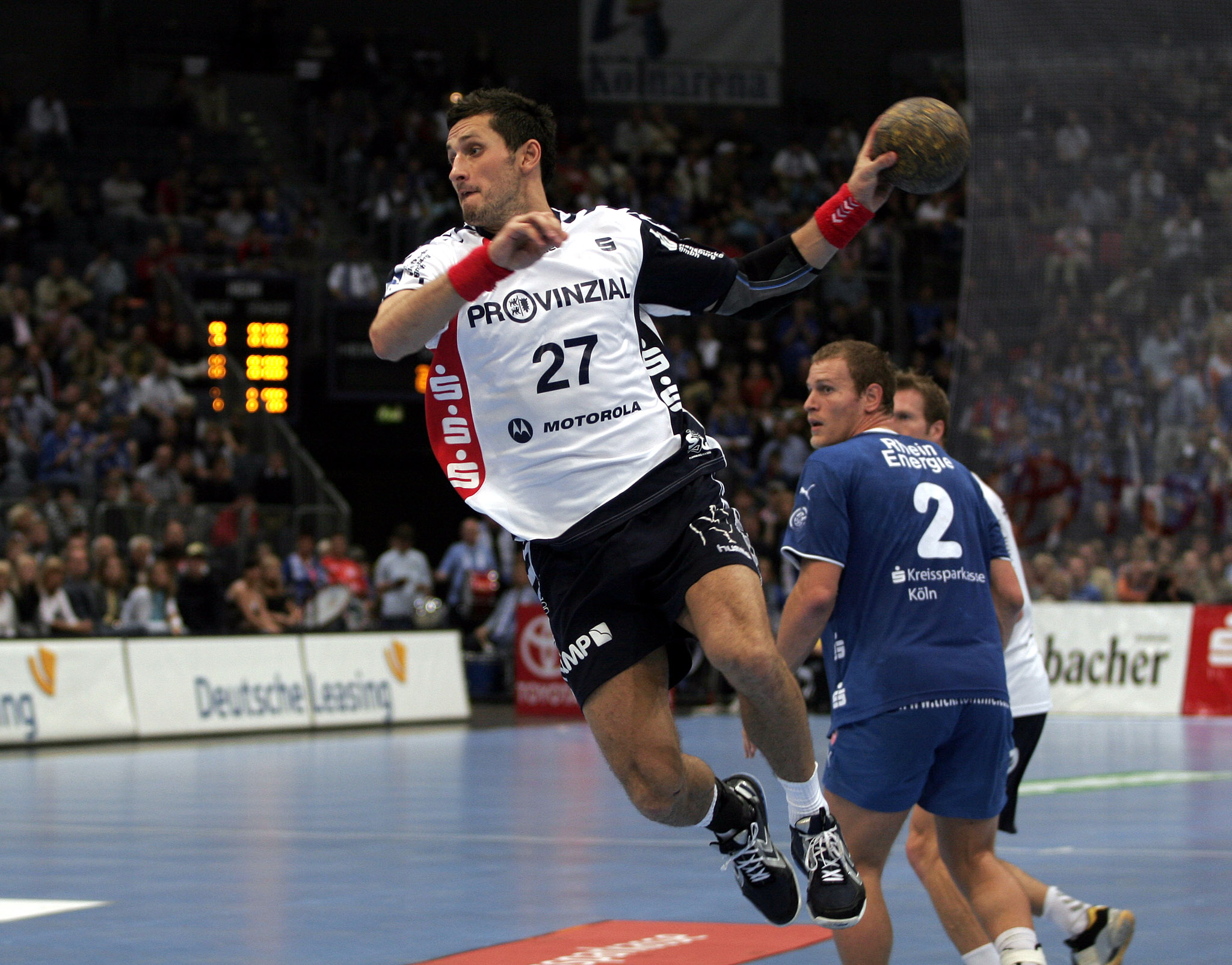 Alexander Petersson, handball player of SG Flensburg-Handewitt, in the Kölnarena during the game VfL Gummersbach - SG Flensburg-Handewitt